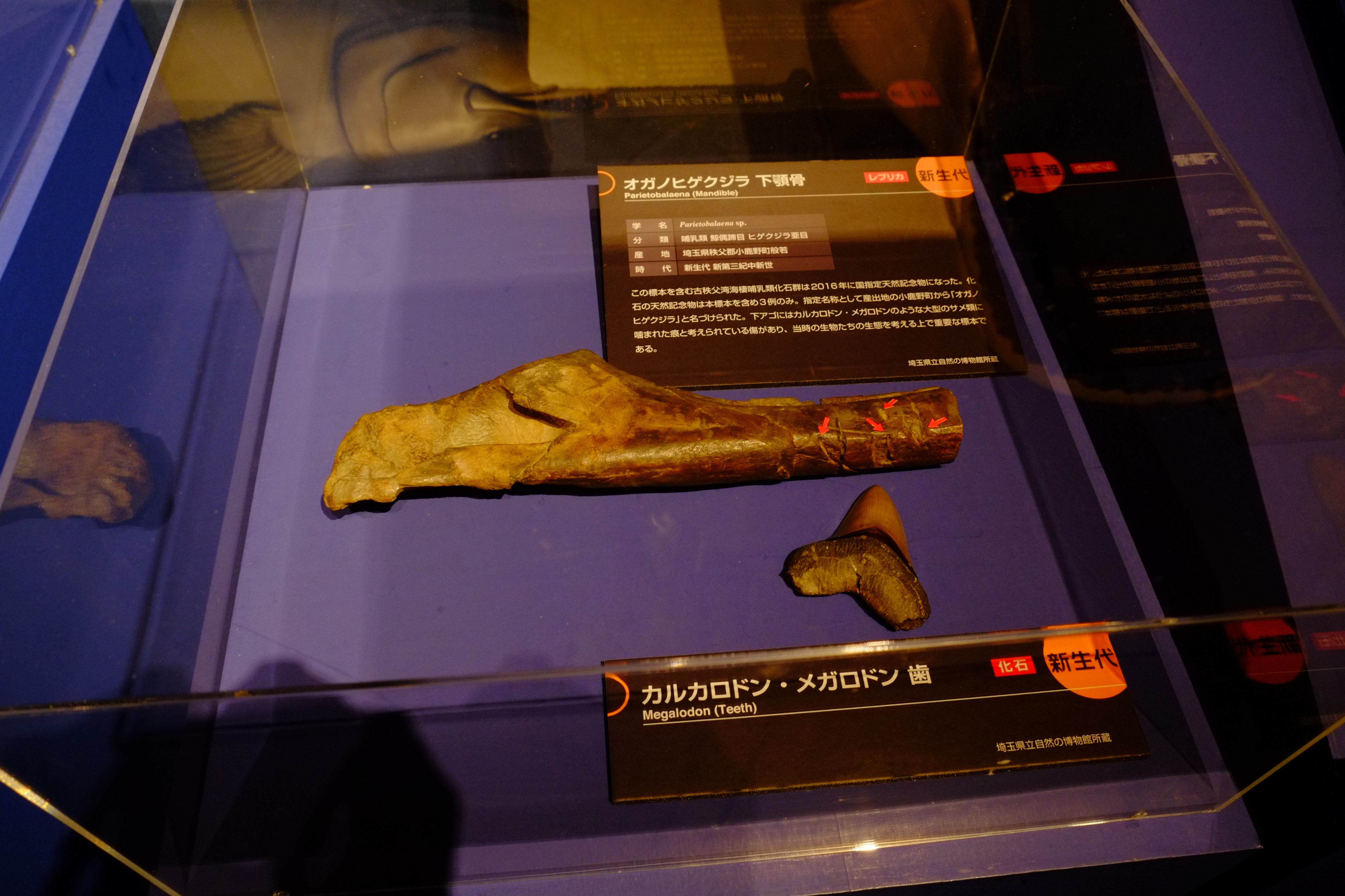 カルカロドン・メガロドン歯&オガノヒゲクジラ下顎骨